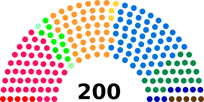 Seats diagramme of Swiss National Council (1983)